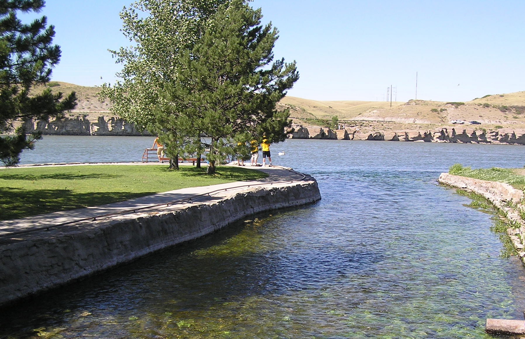 Roe River flowing from Giant Springs into Missouri River. In Giant Springs State Park and Giant Springs Trout Hatchery, Great Falls, Montana.